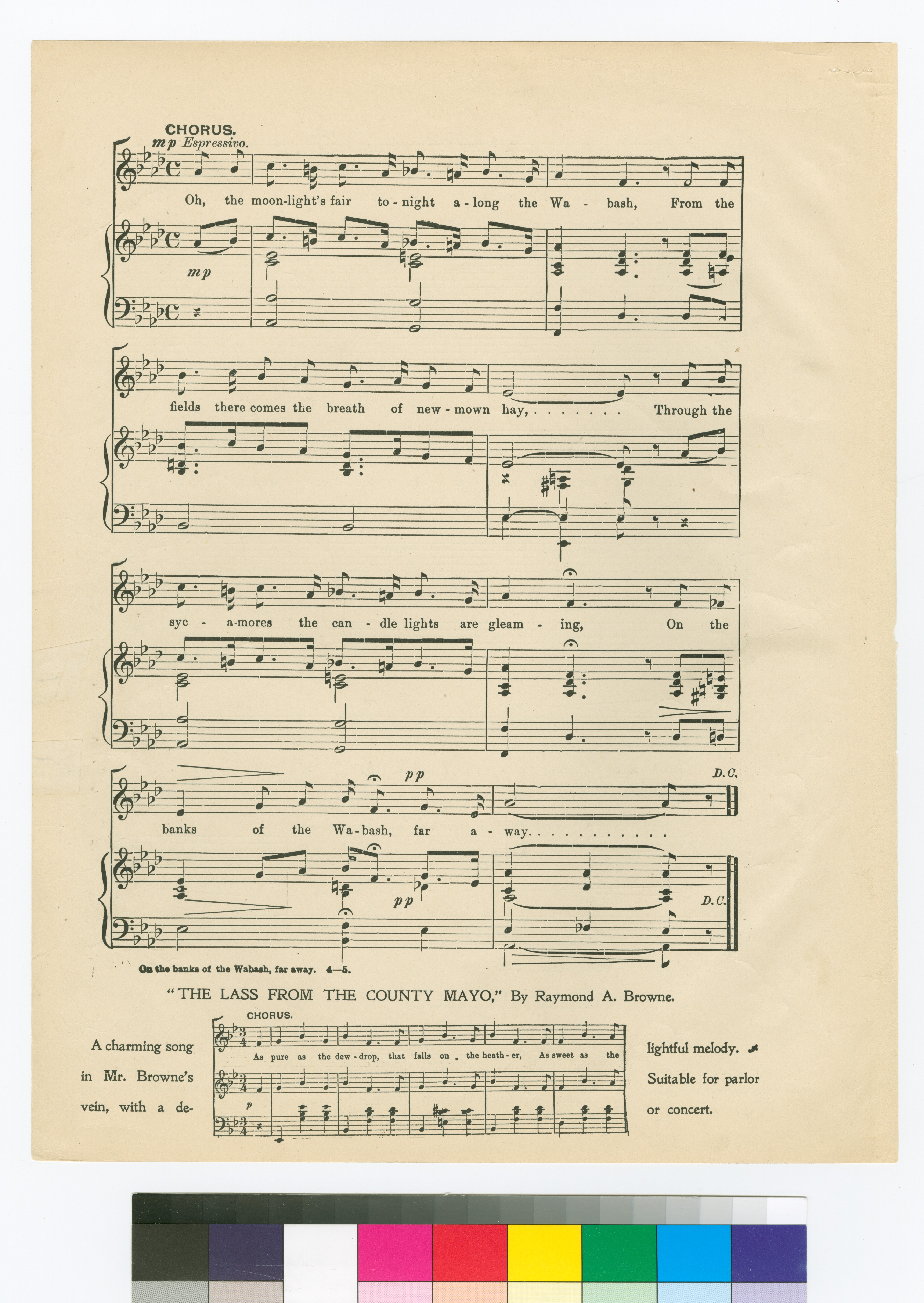 Dedication: Respectfully inscribed to Miss Mary E. South, Terre Haute, Ind. On cover: picture of Manning & Weston. Statement of responsibility : words and music by Paul Dresser.